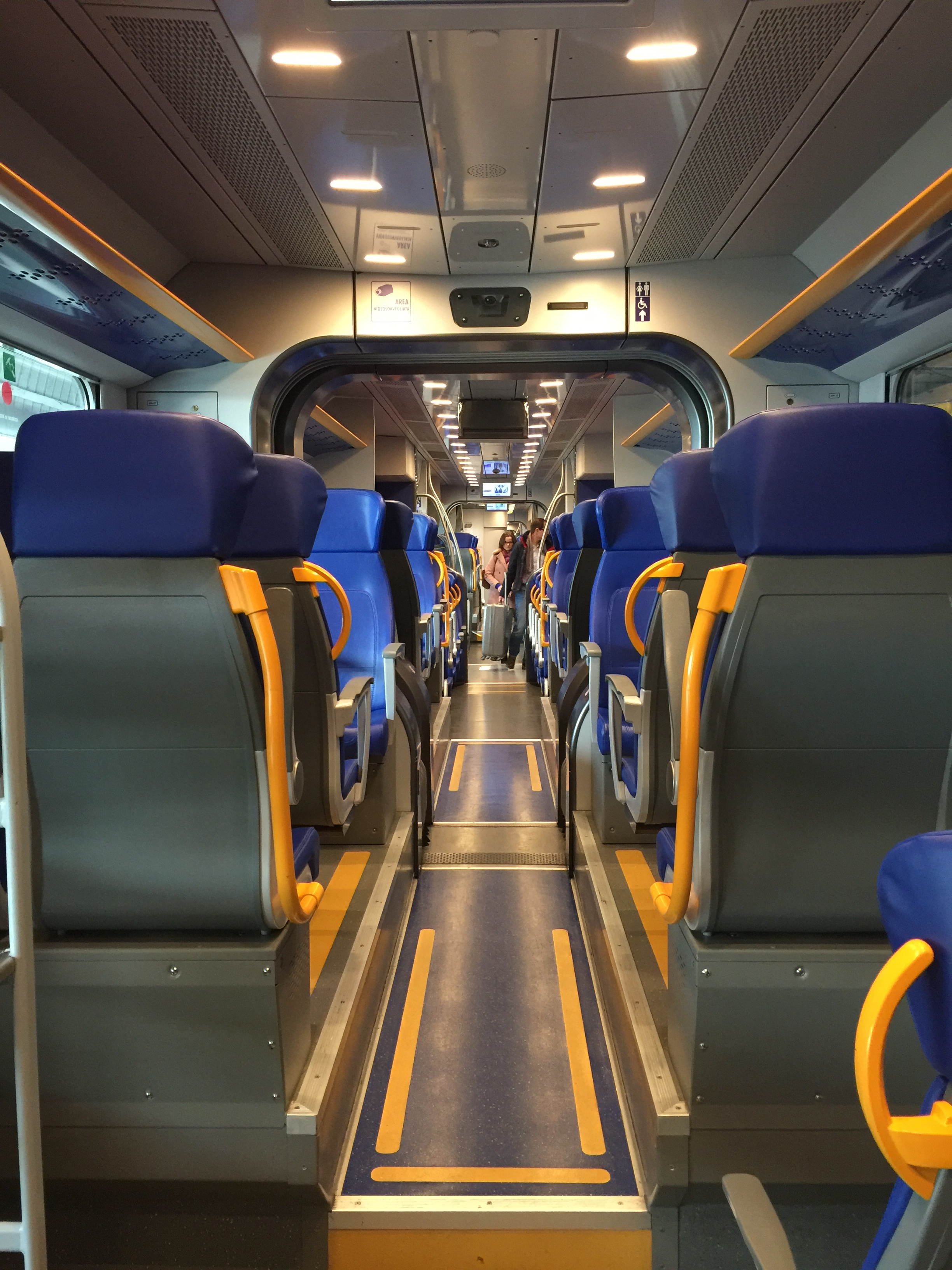 Trenitalia's Leonardo Express Interior